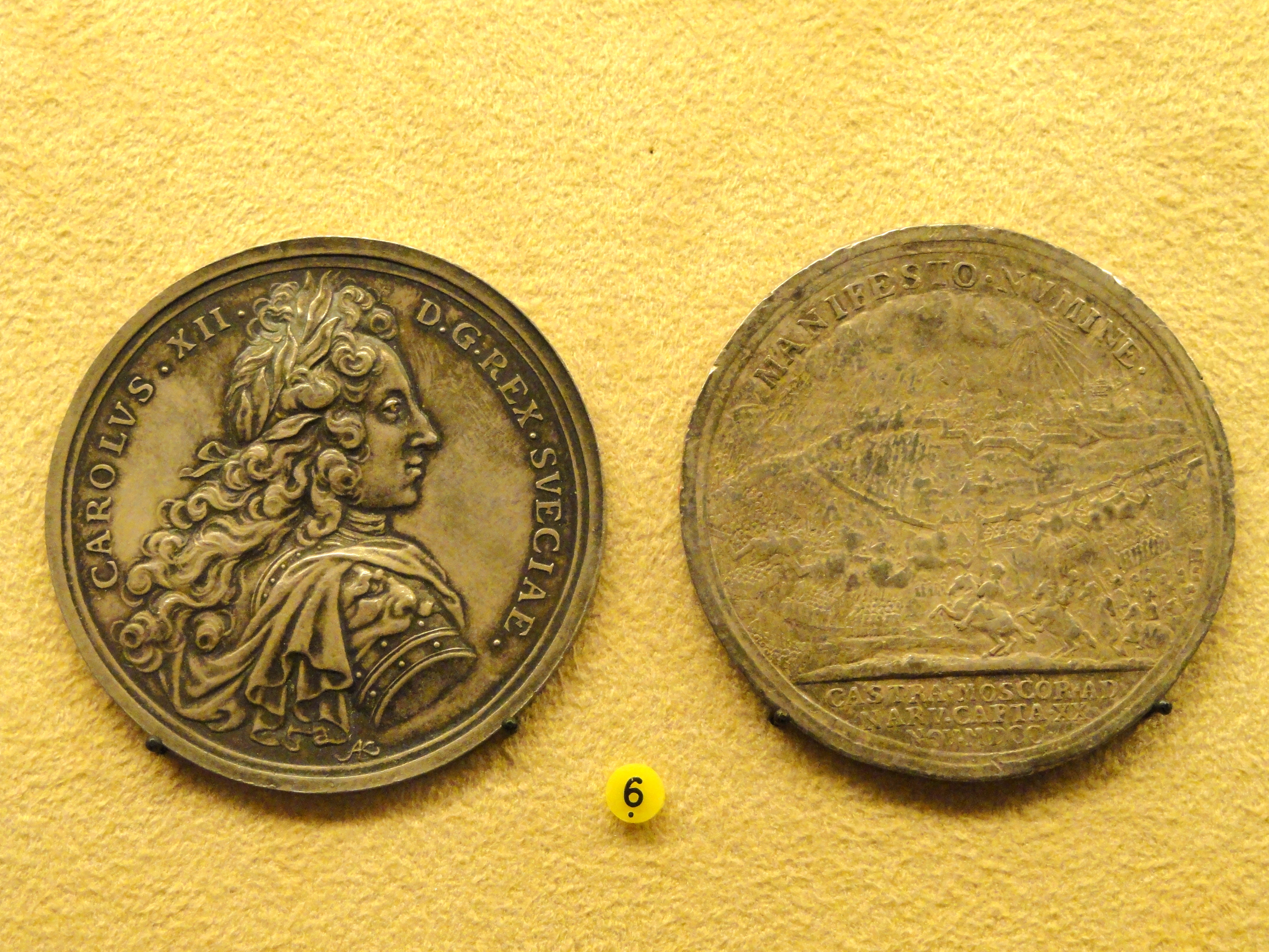 Coin / medal in the National Museum of Finland, Helsinki, Finland. This artwork is in the public domain because the artist(s) died more than 70 years ago. Inscription on front: "CAROLVS.XII.D.G.REX.SVECIAE." Inscriptions on back: "MANIFESTO.NVMINE." "CASTRA.MOSCOR.AD NARV.CAPTA.XX NOV.MDCO."